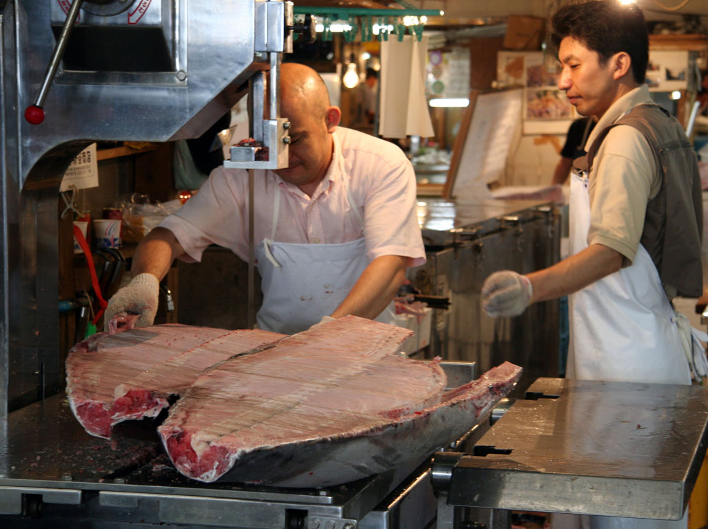 Tuna cut in half at Tsukiji fish market in Tokyo, Japan. Photo taken in Tokyo 2006 by myself (Bantosh).